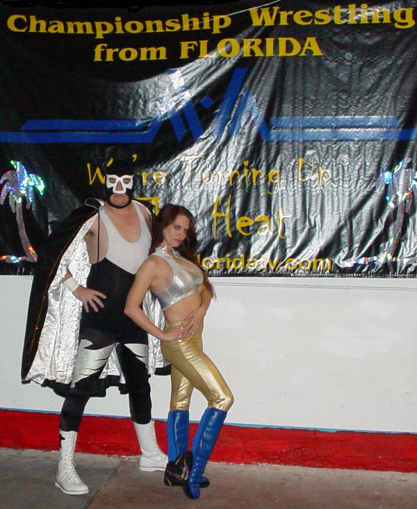 The Nighthawk with valet Vanessa Harding